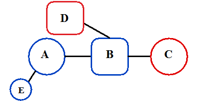 efni